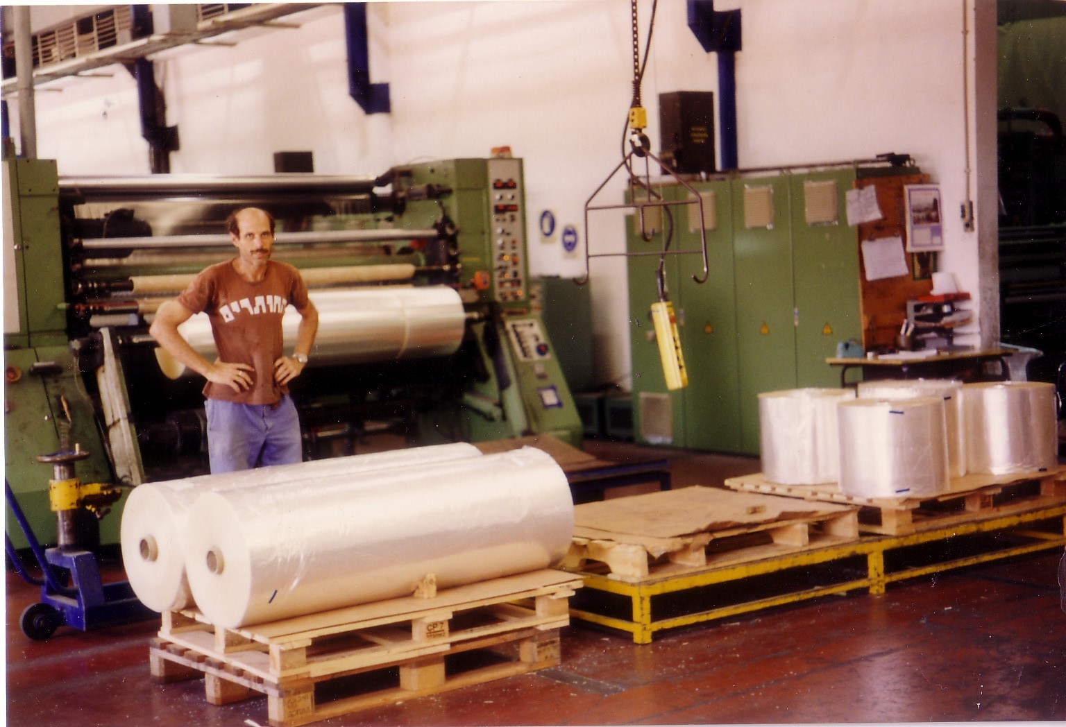 Plastics factory